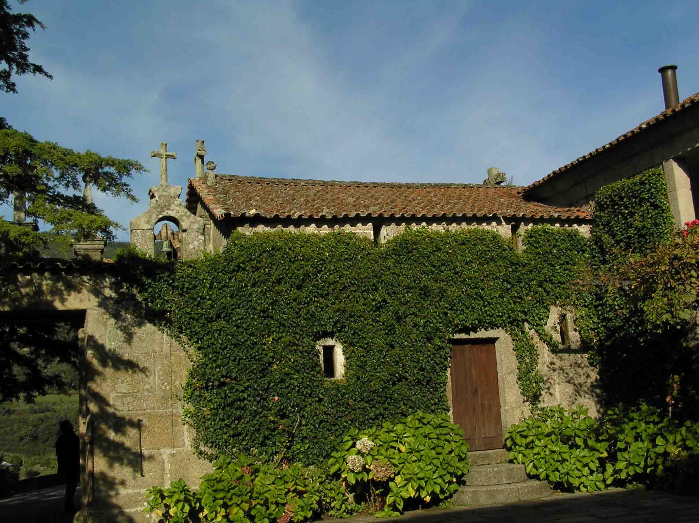 House in Tormes, Baião, Portugal.